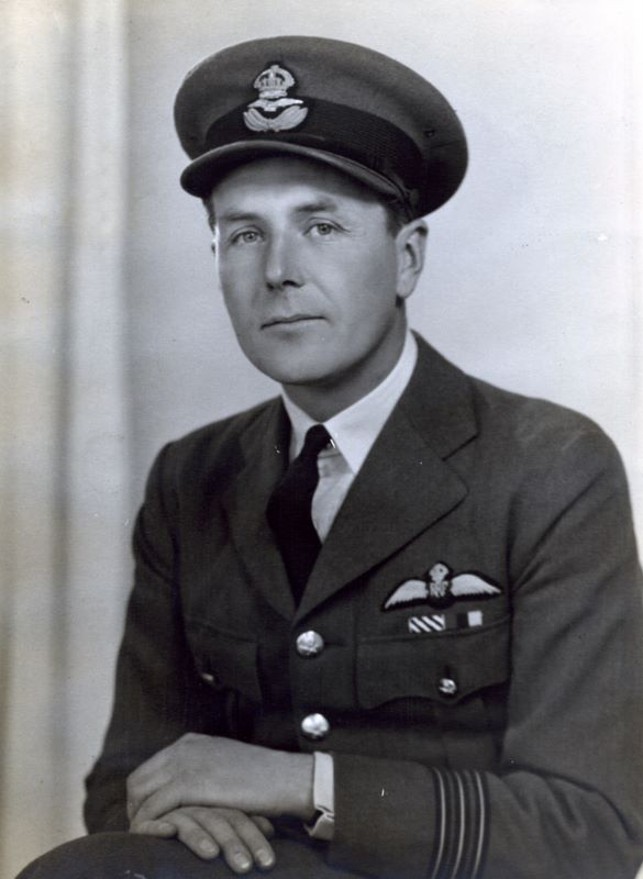 My grandfather, Bill Loxton in the 1950s. From our Family Photograph Collection. Photo paid for & created for possession of my Grandfather, individual now deceased, however all heirs consent to releasing the image under a free license.